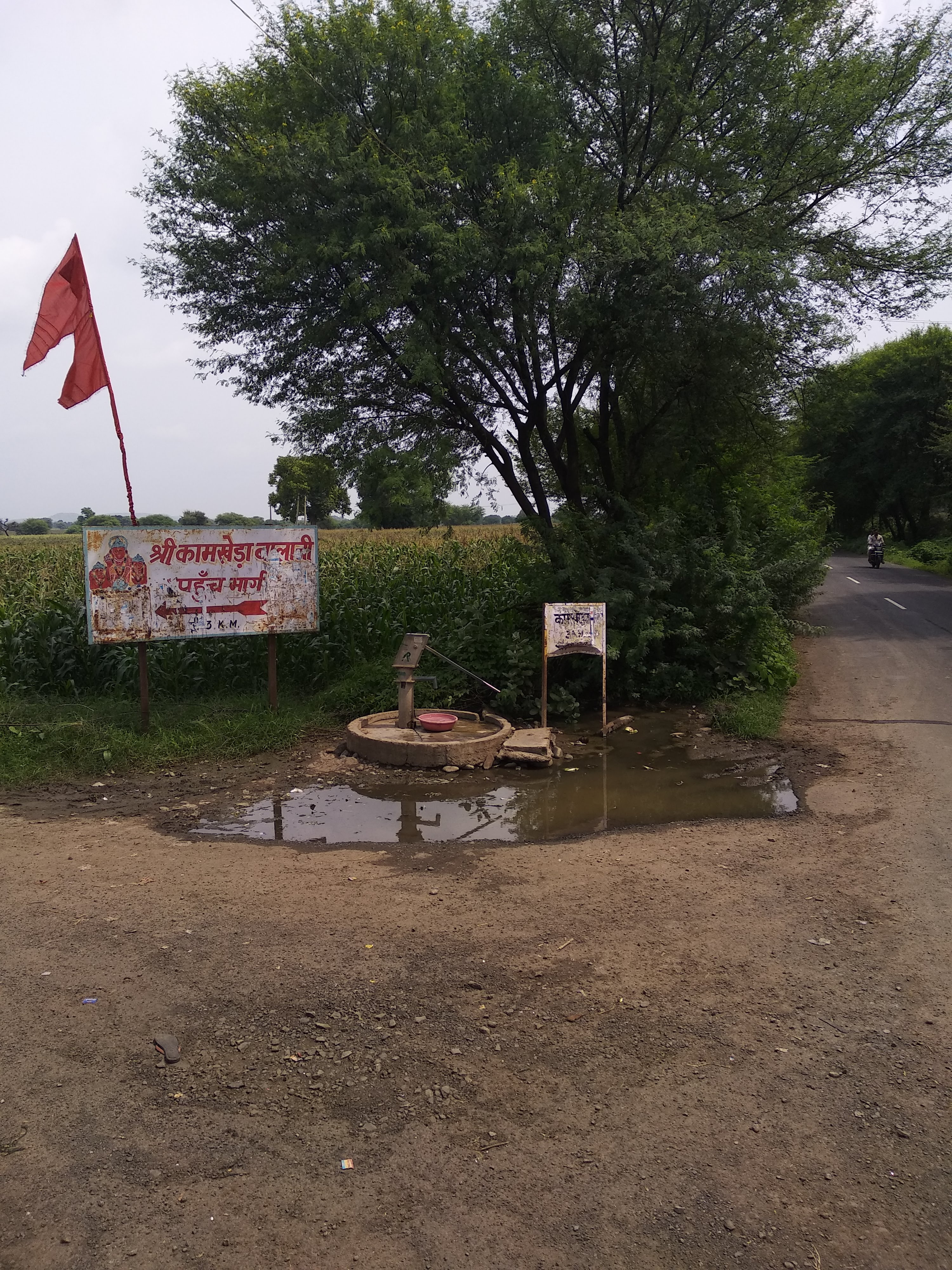 Kamkheda Balaji via Peeplya Chauraha